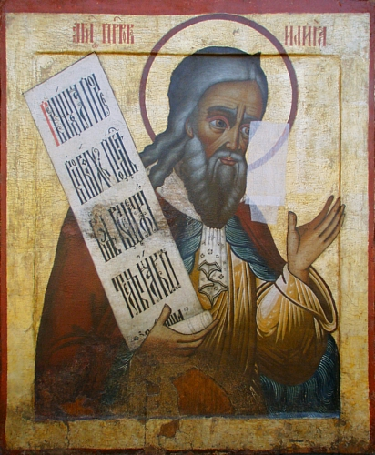 Prophet Elijah, Russian Orthodox icon from first quarter of 18-th cen.